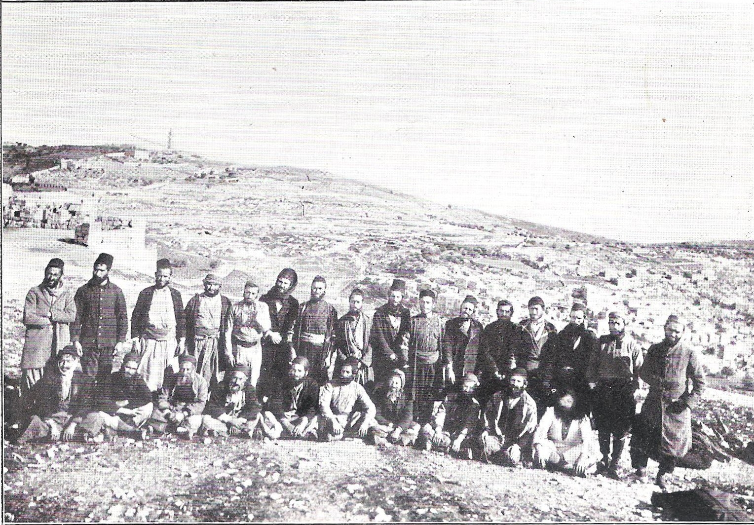 The picture are from old book (that was published in 1899), some of the picture are fro 1899, some are even older: This work or image is now in the public domain because its term of copyright has expired in Israel. According to Israel's copyright statute from 2007 (translation), a work is released to the public domain on 1 January of the 71st year after the author's death (paragraph 38 of the 2007 statute) with the following exceptions: A photograph taken on 24 May 2008 or earlier — the old British Mandate act applies, i.e. on 1 January of the 51st year after the creation of the photograph (paragraph 78(i) of the 2007 statute, and paragraph 21 of the old British Mandate act). If the copyrights are owned by the State, not acquired from a private person, and there is no special agreement between the State and the author — on 1 January of the 51st year after the creation of the work (paragraphs 36 and 42 in the 2007 statute). See also category: PD Israel & British Mandate. For the scan and the the crop: The name of the book (in hebrew) is: "מראה ארץ ישראל והמושבות" by (in hebrew): "ישעיהו ראפאלוביטש ושותפו משה אליהו זאכס" Spanish Jews